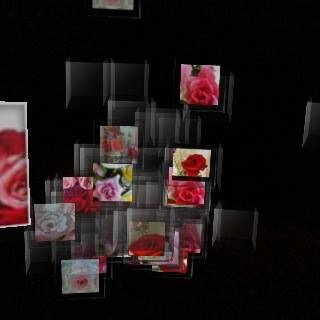 This is an AR poetry picture. Flowing roses make us imagine Paul Celan's morning words.